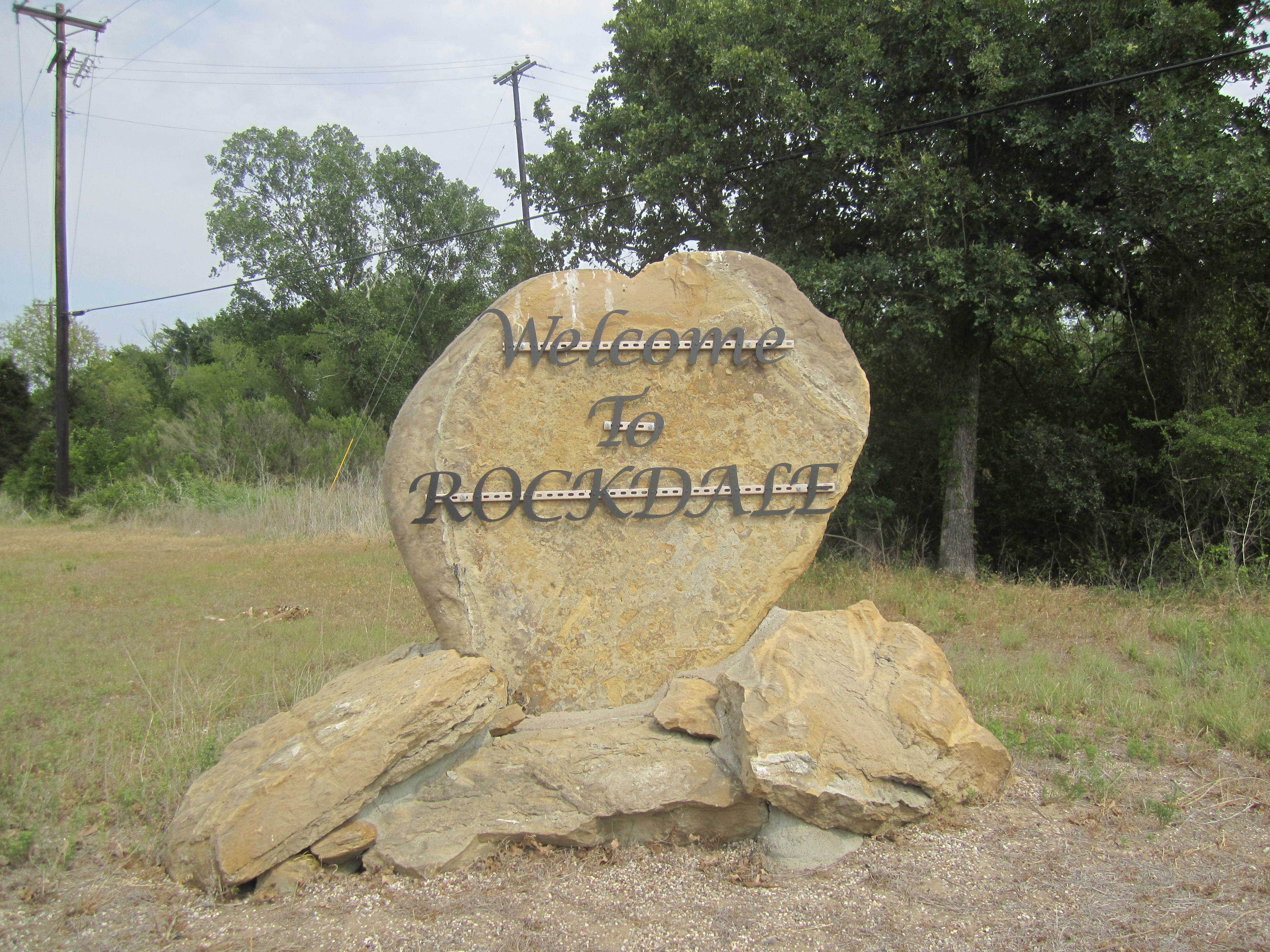 I took photo of Rockdale, TX, welcome sign with Canon camera.